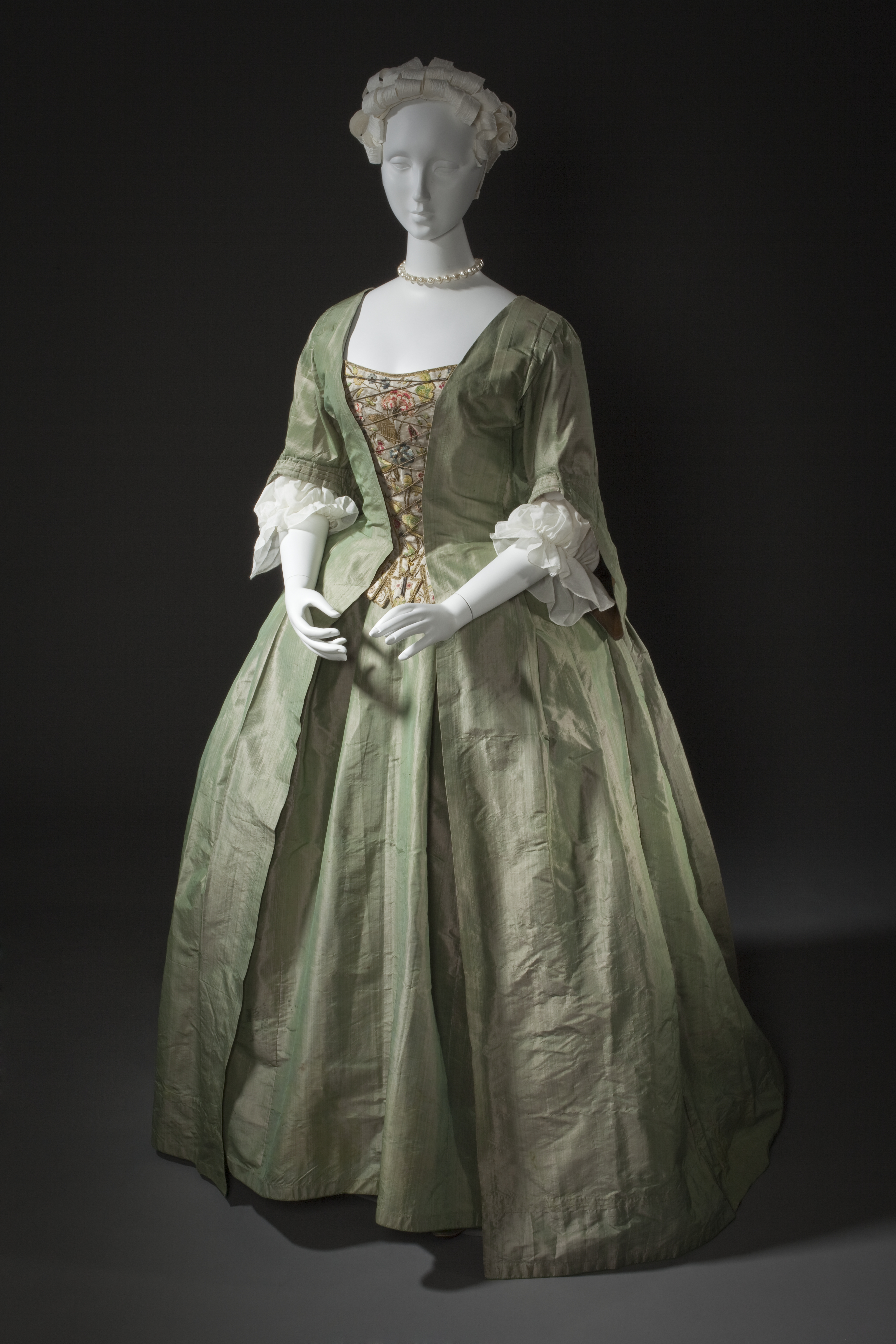 Robe à la Française (gown and petticoat), Europe, c. 1725. Silk plain weave (shot taffeta). Shown with embroidered stomacher, England, c. 1735.